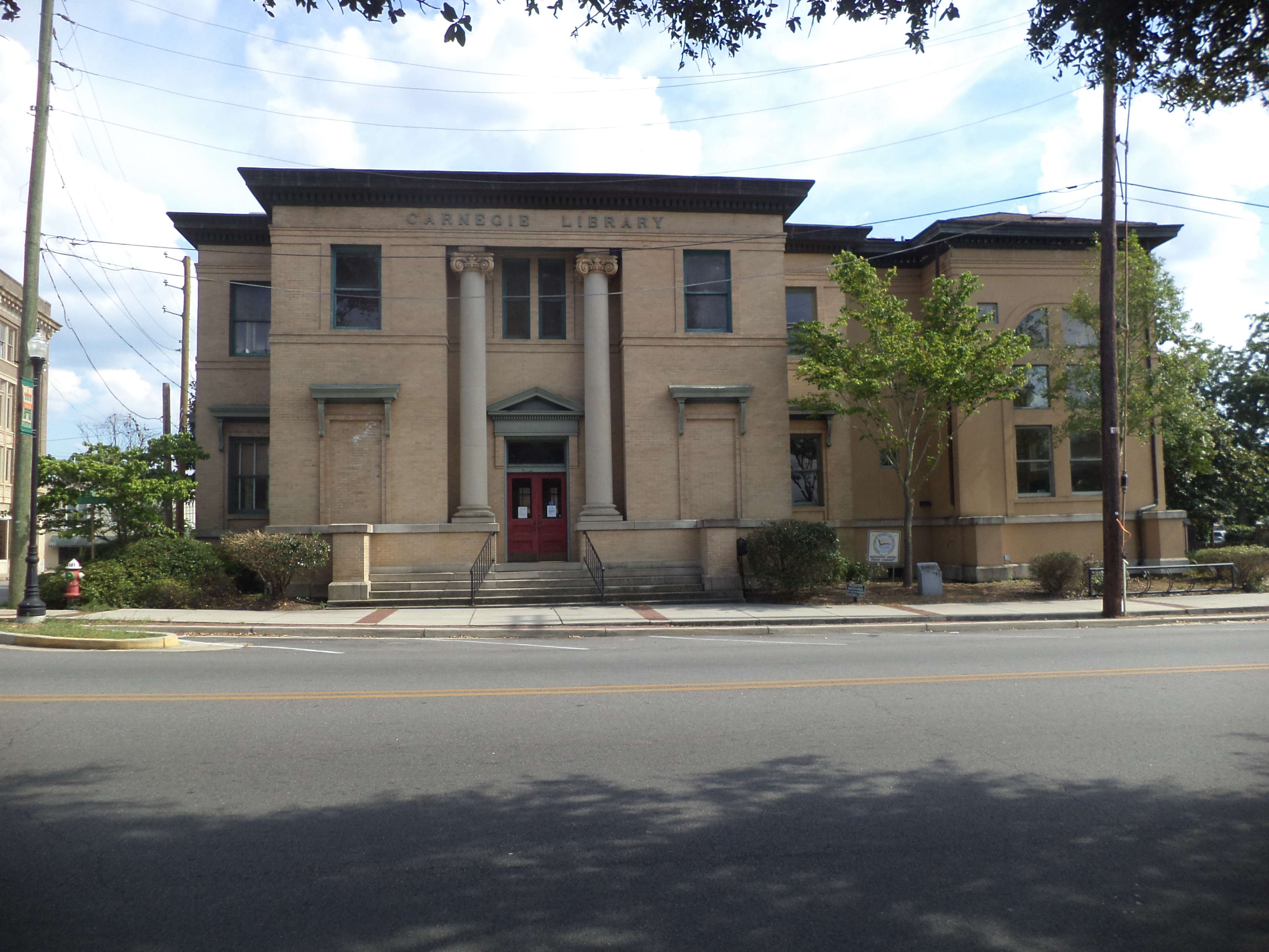 Carnegie Library, 200 Hand Ave W, Pelham, Mitchell County, Georgia. It is located in the Pelham Commercial Historic District.